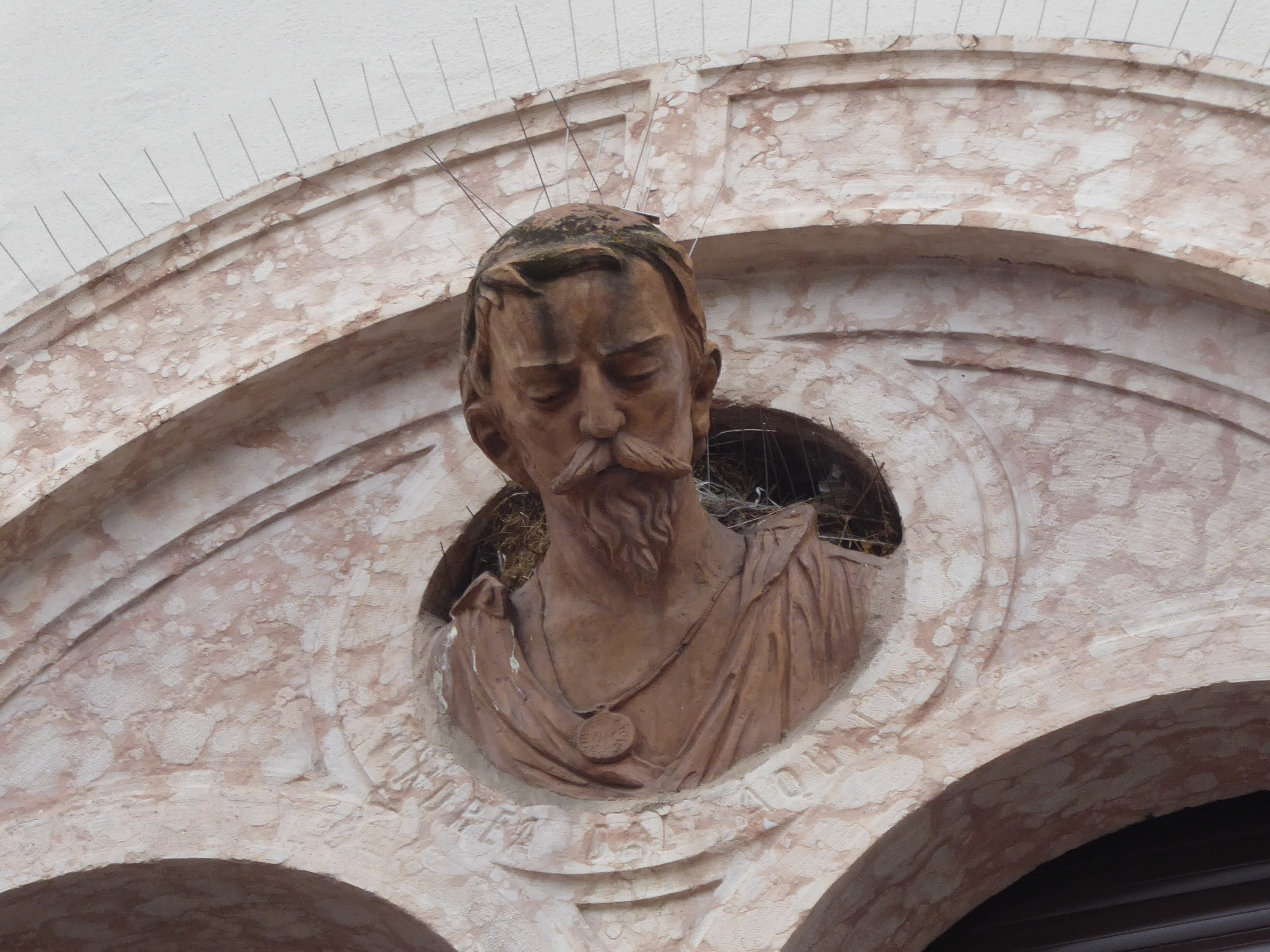 Bust of Andrea Dall'Aquila on the facade of Palazzo Ranzi, in Trento, by Andrea Malfatti